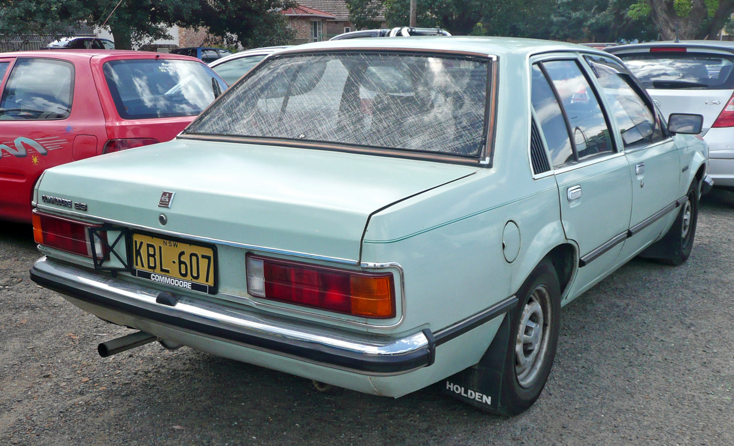 1979 Holden Commodore (VB) 3.3 sedan. Photographed in Sutherland, New South Wales, Australia.